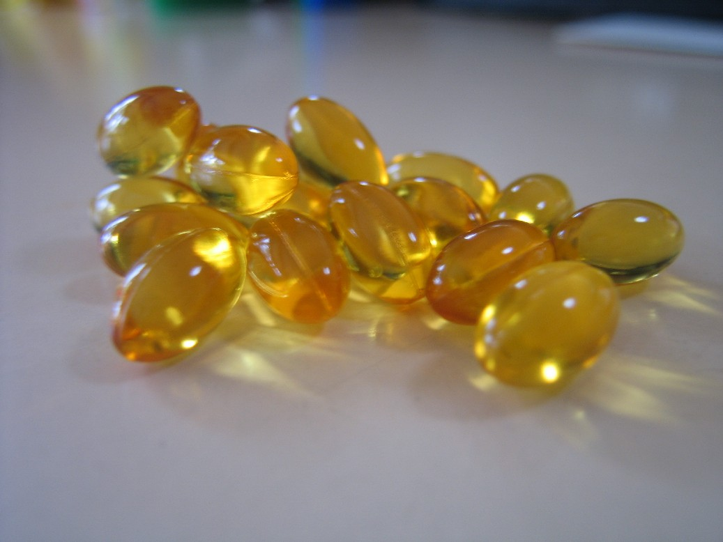 Photograph of Cod Liver Oil capsules.